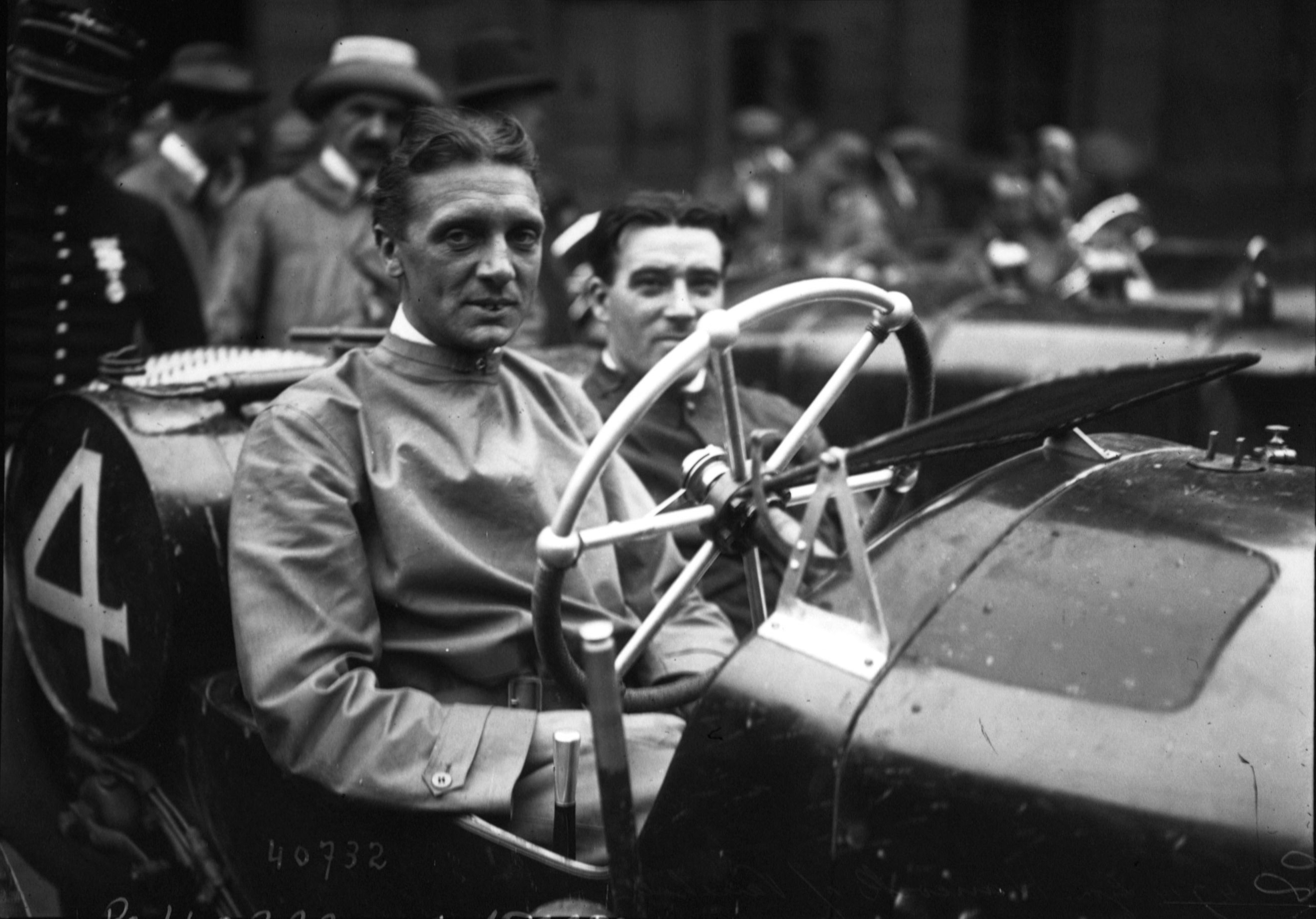 John Hancock at the 1914 French Grand Prix driving a Vauxhall